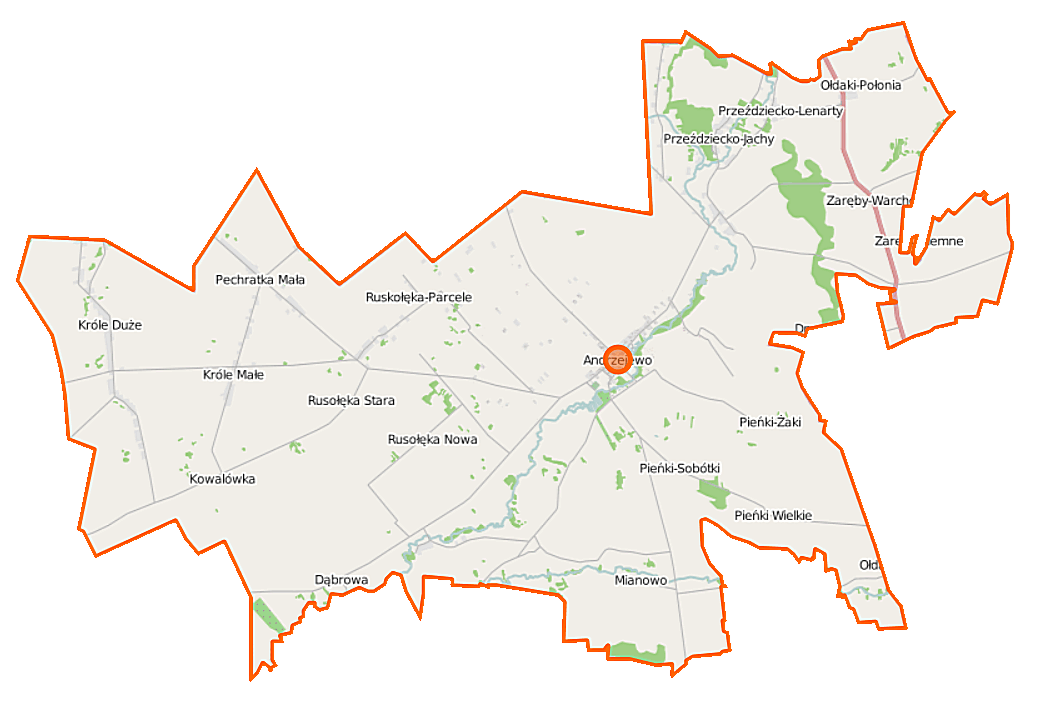 Map of Gmina Andrzejewo, Poland This map of Andrzejewo (gmina) was created from OpenStreetMap project data, collected by the community. This map may be incomplete, and may contain errors. Don't rely solely on it for navigation. Border coordinates52.889822.0310←↕→22.315652.7724